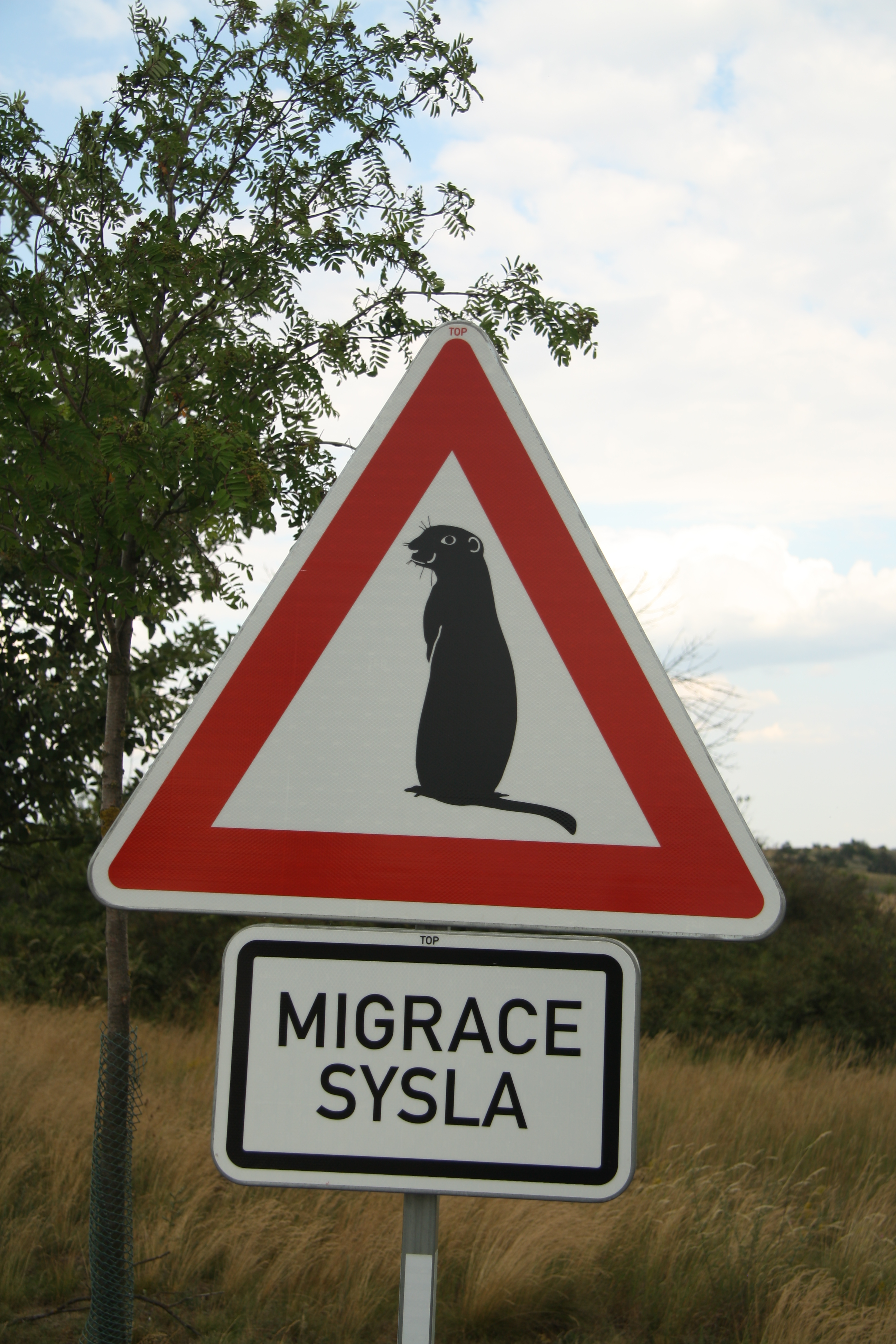 Detail of Warning road sign related to ground squirrel near Mohelelnská hadcová step near Mohelno, Třebíč District..